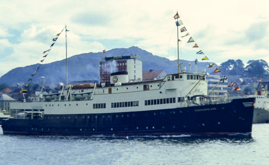 "Sunnhordland" at Vågen in Bergen in 1968